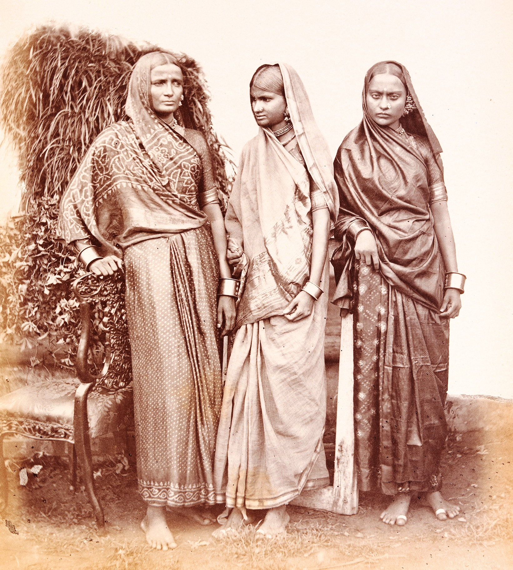 Title: Bhattia Women Creator: Johnson, William Date: ca. 1855-1862 Part Of: Photographs of Western India Series: Photographs of Western India. Volume I. Costumes and Characters. Place: India Physical Description: 1 photographic print: albumen; 26 x 20 cm on 42 x 35 cm mount File: vault_ag2002_1407x_1_011_bhattia_opt.jpg Rights: Please cite Southern Methodist University, Central University Libraries, DeGolyer Library when using this image file. A high-quality version of this file may be obtained for a fee by contacting . For more information, see: View Europe, India, and Asia: Photographs, Manuscripts, and Imprints